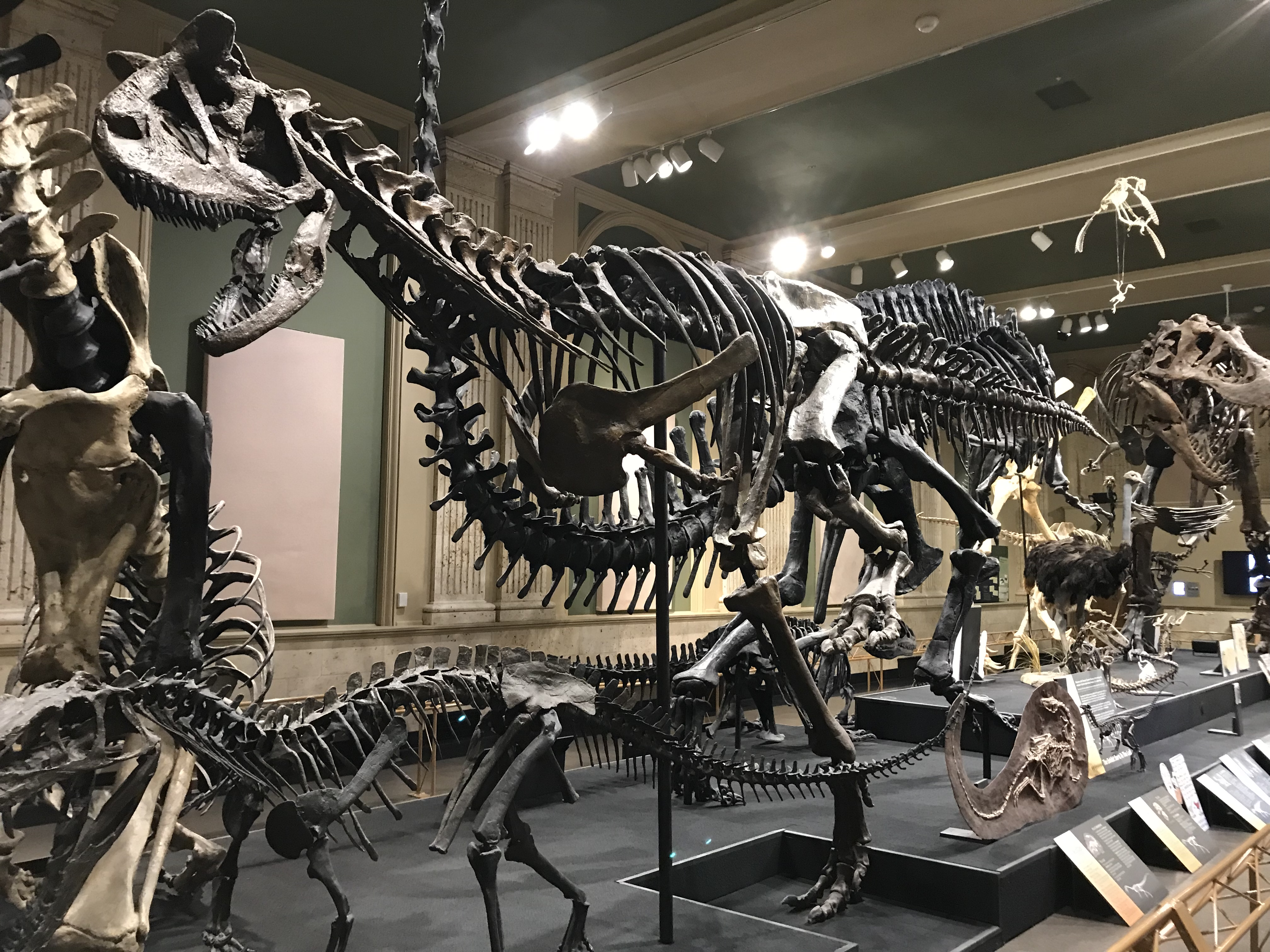 Carnotaurus skeleton.